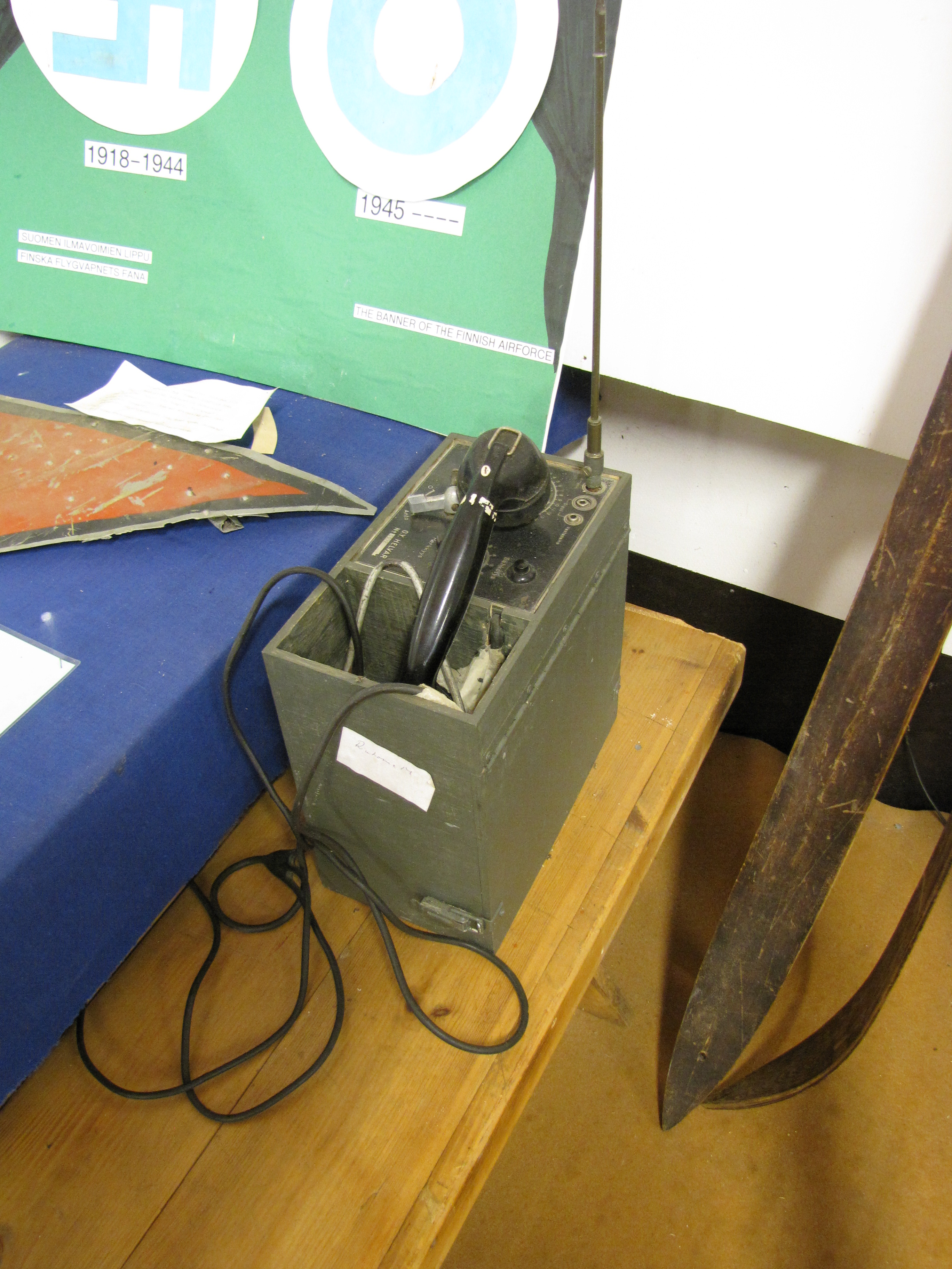 Helvar military radio used by Finnish army in World War 2. Likely P-12-12u "Kukkopilli" model. Photographed in Hanko front museum.